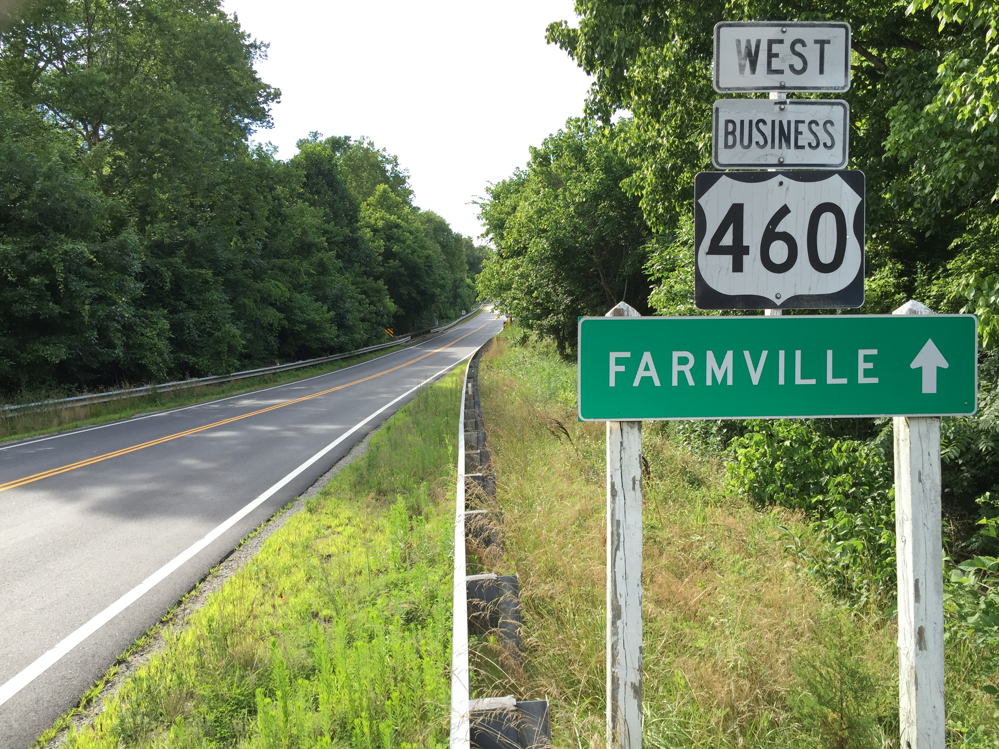 View west along U.S. Route 460 Business (Third Street) just west of U.S. Route 460 (Prince Edward Highway) just southeast of Farmville in Prince Edward County, Virginia